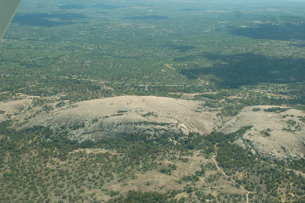 Aerial photo of enchanted rock state park